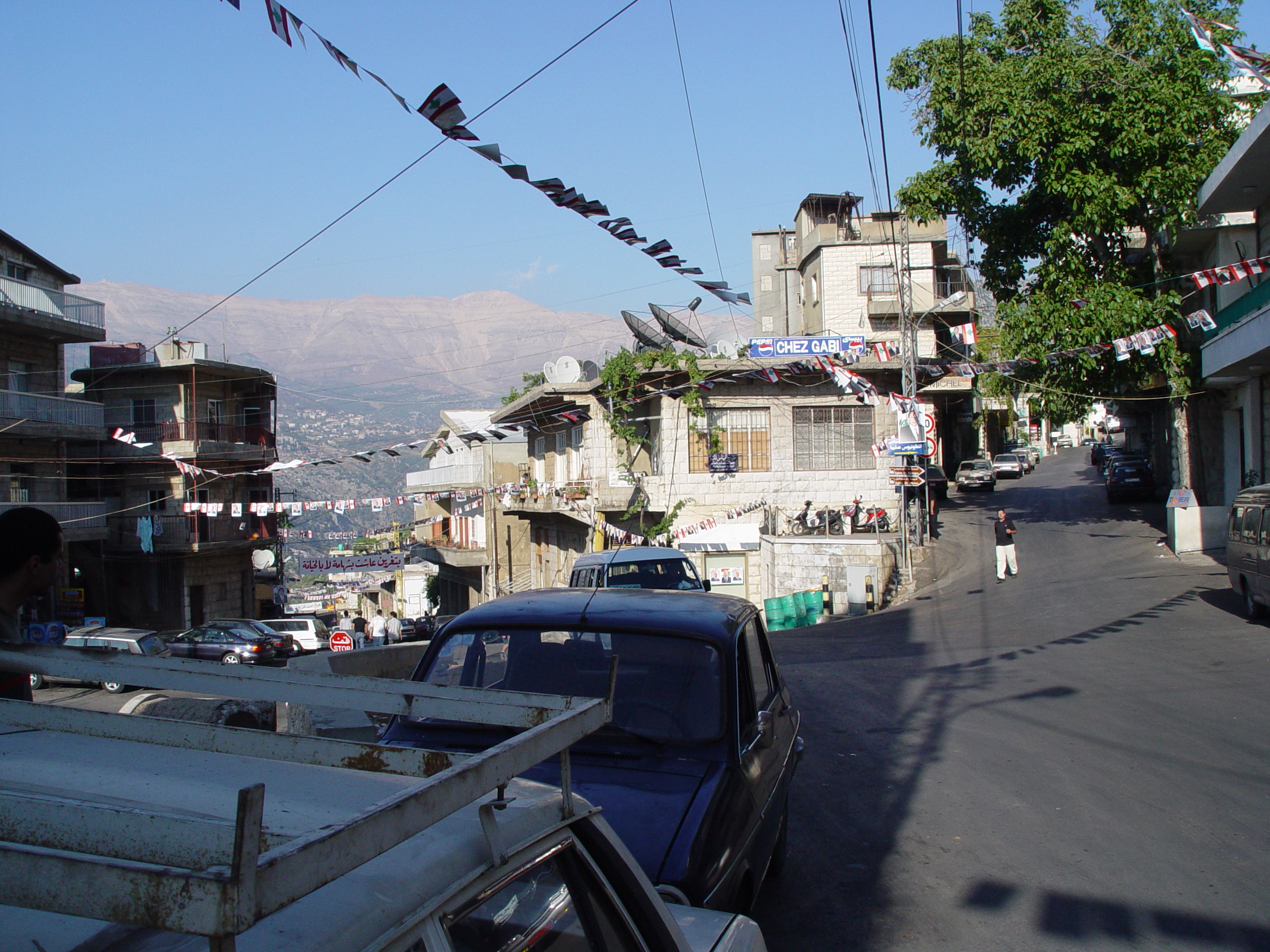 A picture of downtown Bteghrine.